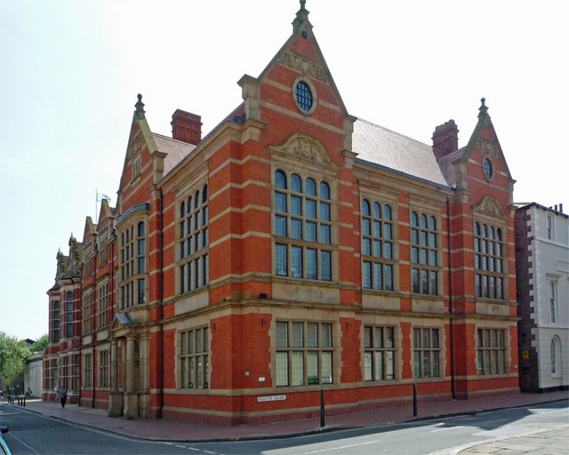 East Riding County Hall, Beverley, East Riding of Yorkshire, England.This building stands on the corner of Cross Street and Register Square. The part nearest the camera dates from 1906-08.